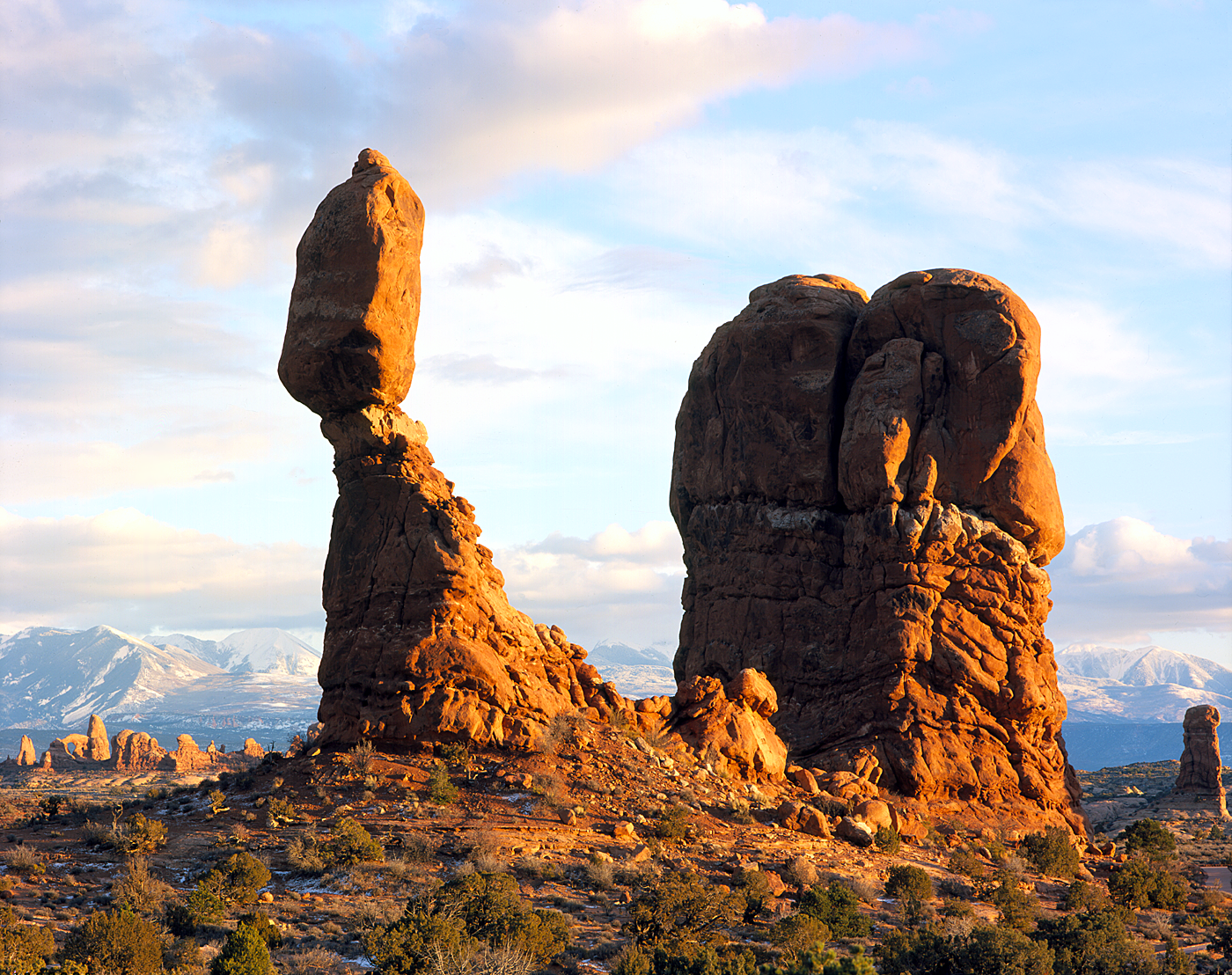 Balanced Rock (Arches National Park)